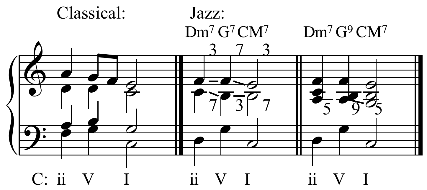 Four-voice classical, three-voice and four-voice jazz "versions" [voicings] of the ii-V7-I progression.